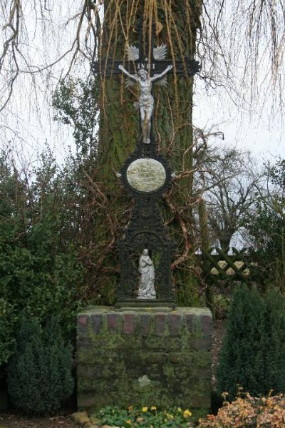 Cultural heritage monument No. 43 in Gangelt